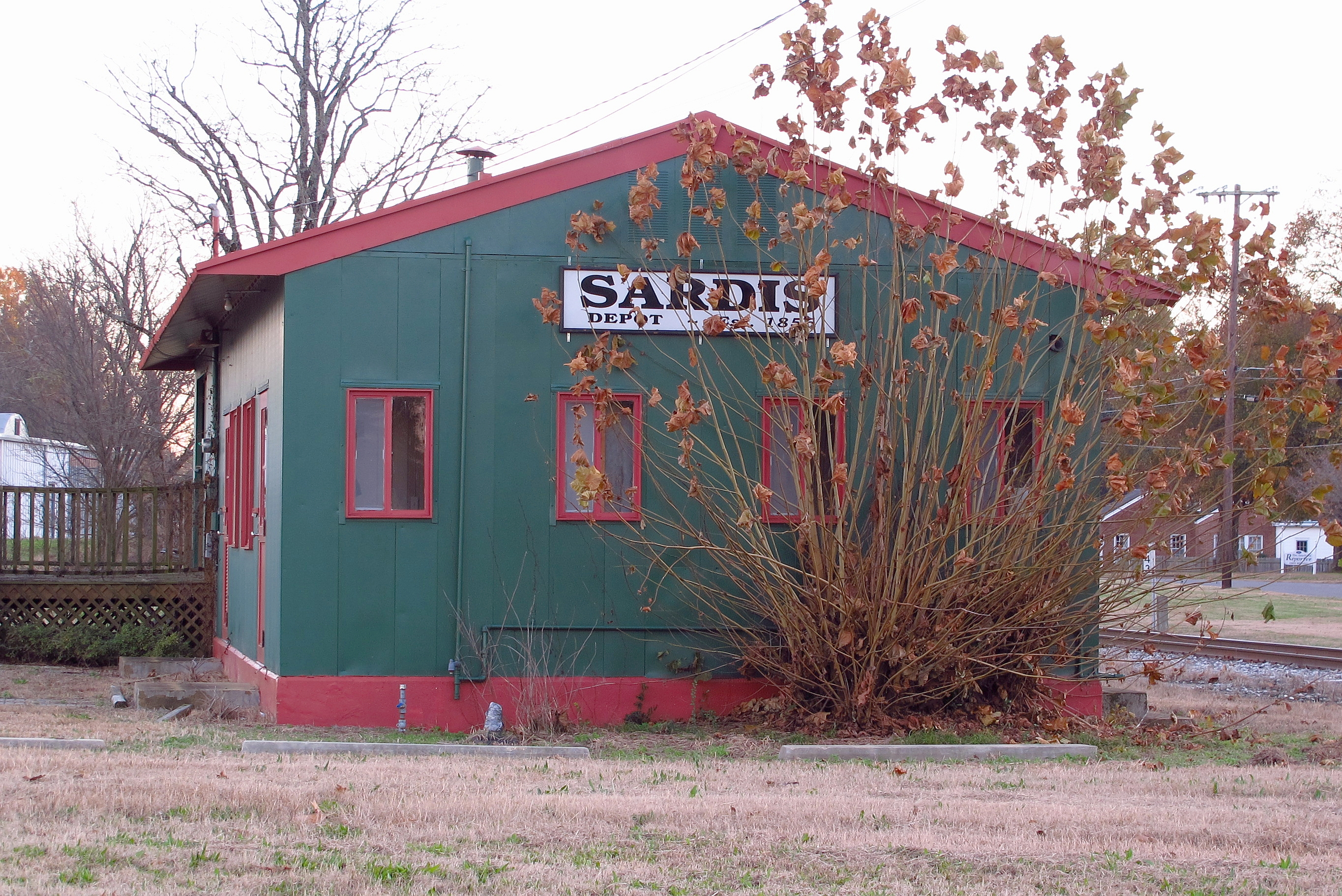 Train station in Sardis, Mississippi.